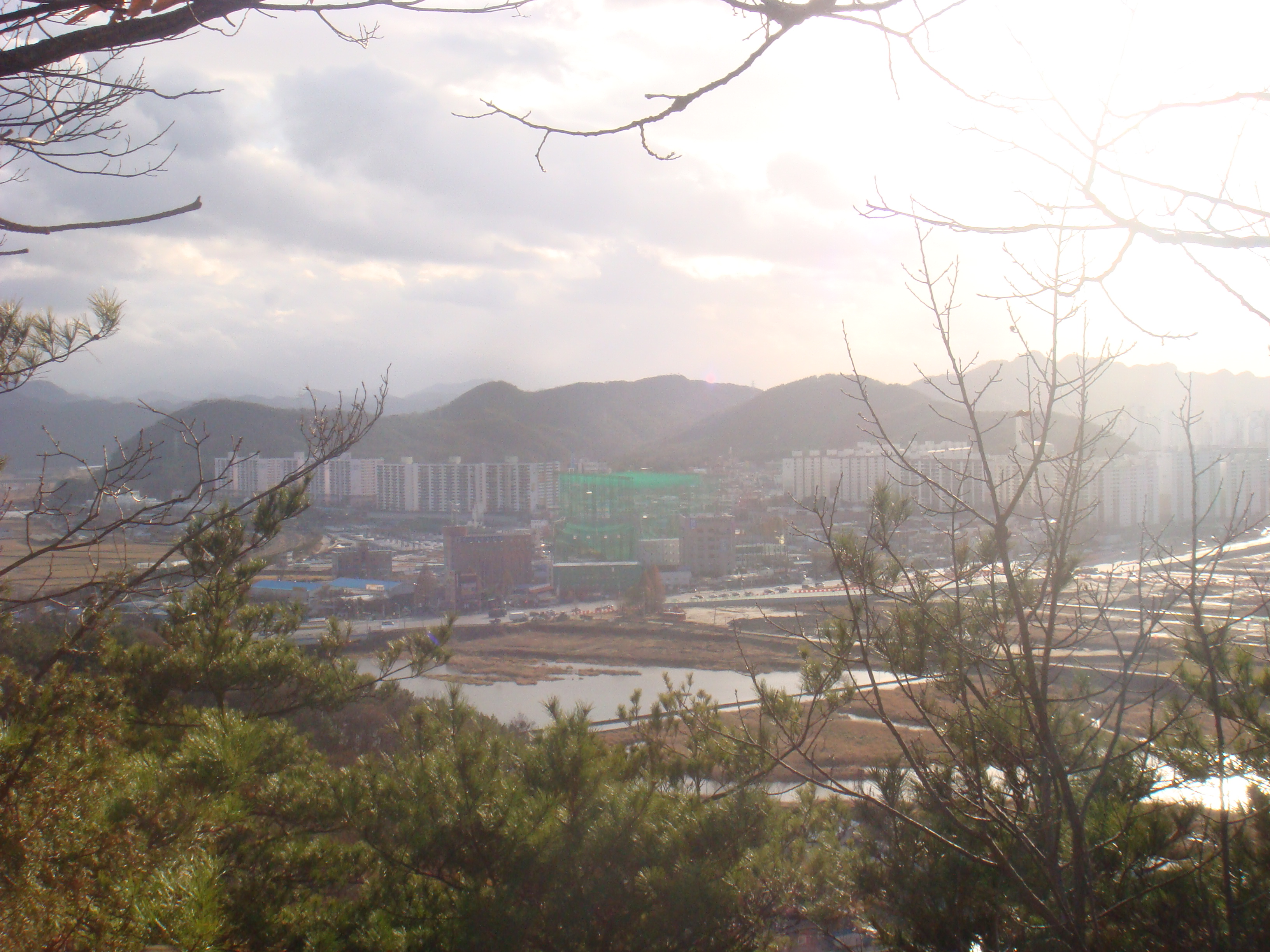 Gasuwon, a town in South Korea : 가수원동